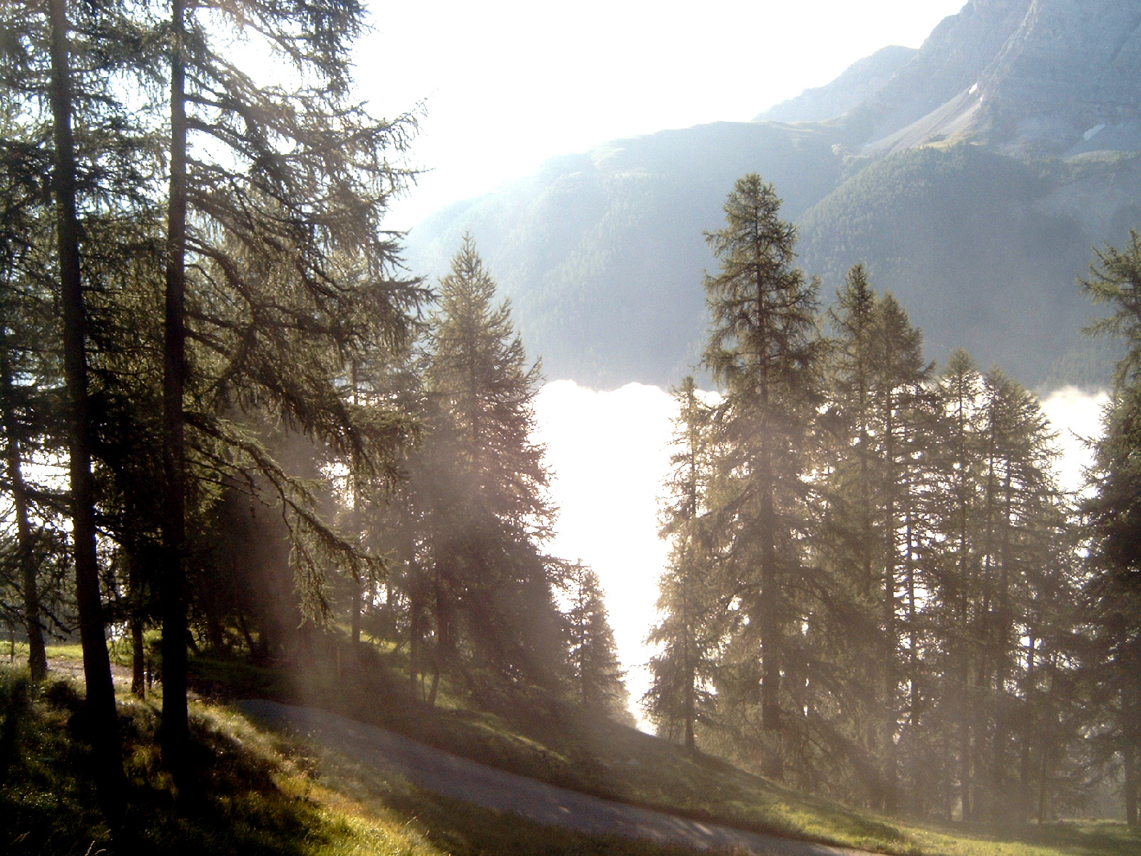 Clouds above Madulain, Switzerland; the trees are Larix decidua